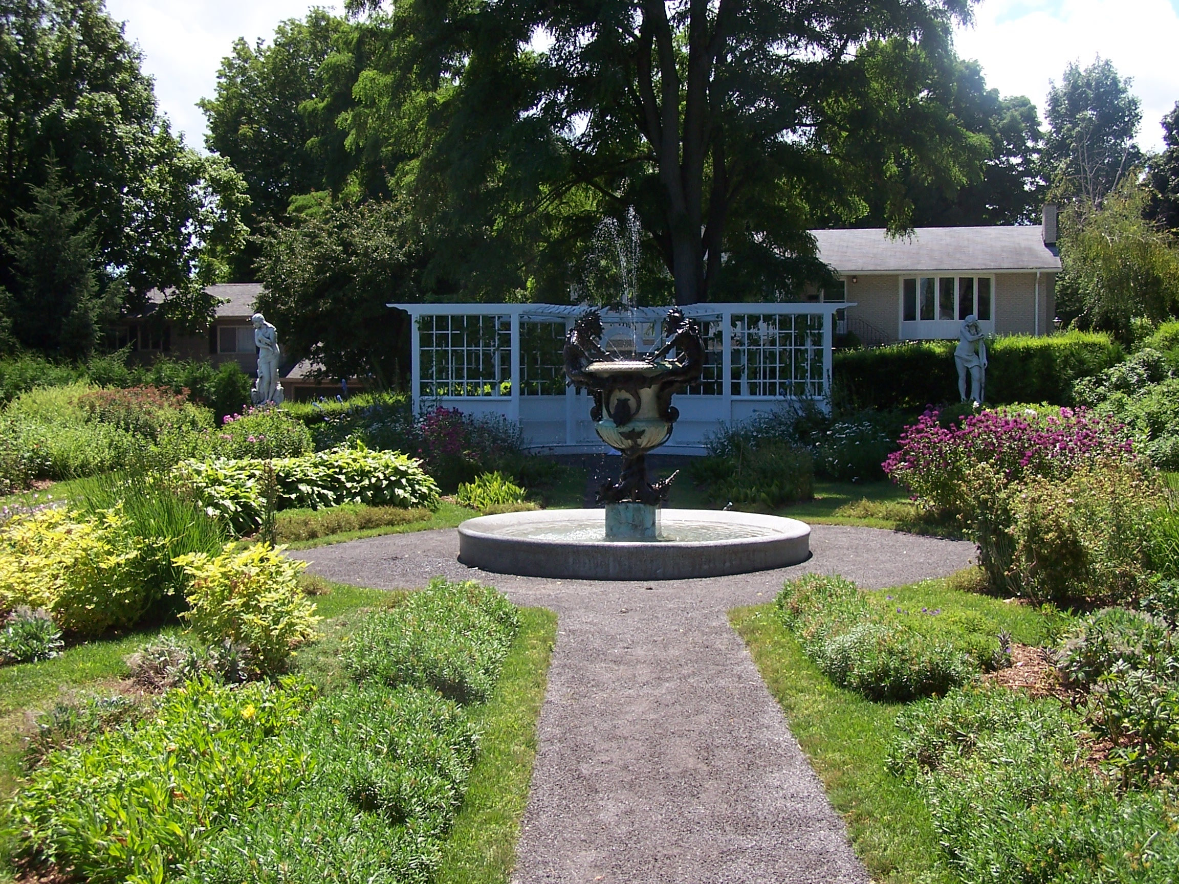 Formal Italianate garden at Fulford Place. It was designed by the Olmsted Brothers, and is located on the west side of the property. It has been fully restored by the OHT, and includes statues of Eve (left) and Adam, as well as a fountain with Tritons.